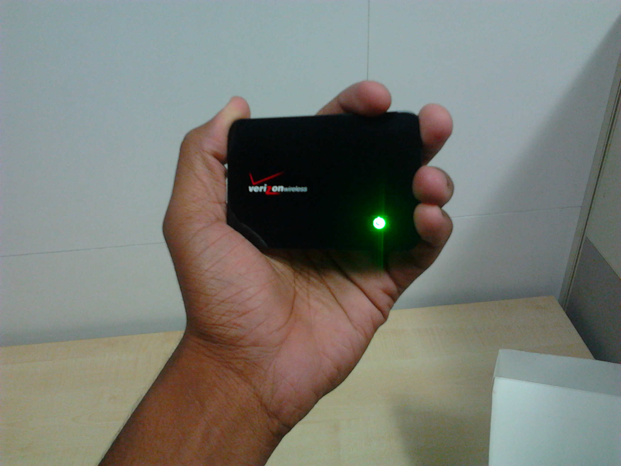 Photoed using Samsung Wave 525.